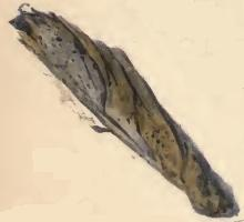 Stainton’s Natural History of the Tineina (1855–1873): Coleophora serratulella larval case